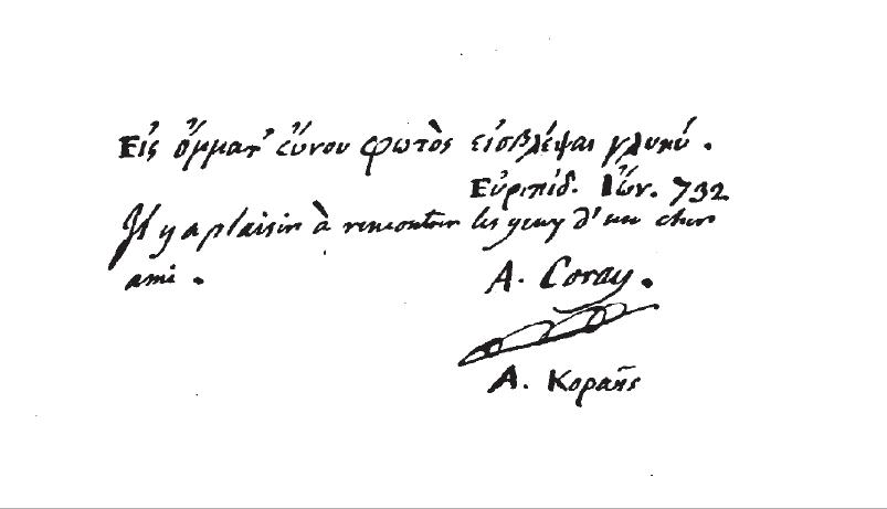 Handwriting in greek and french, and signature of Adamantios Koraïs (Coray).